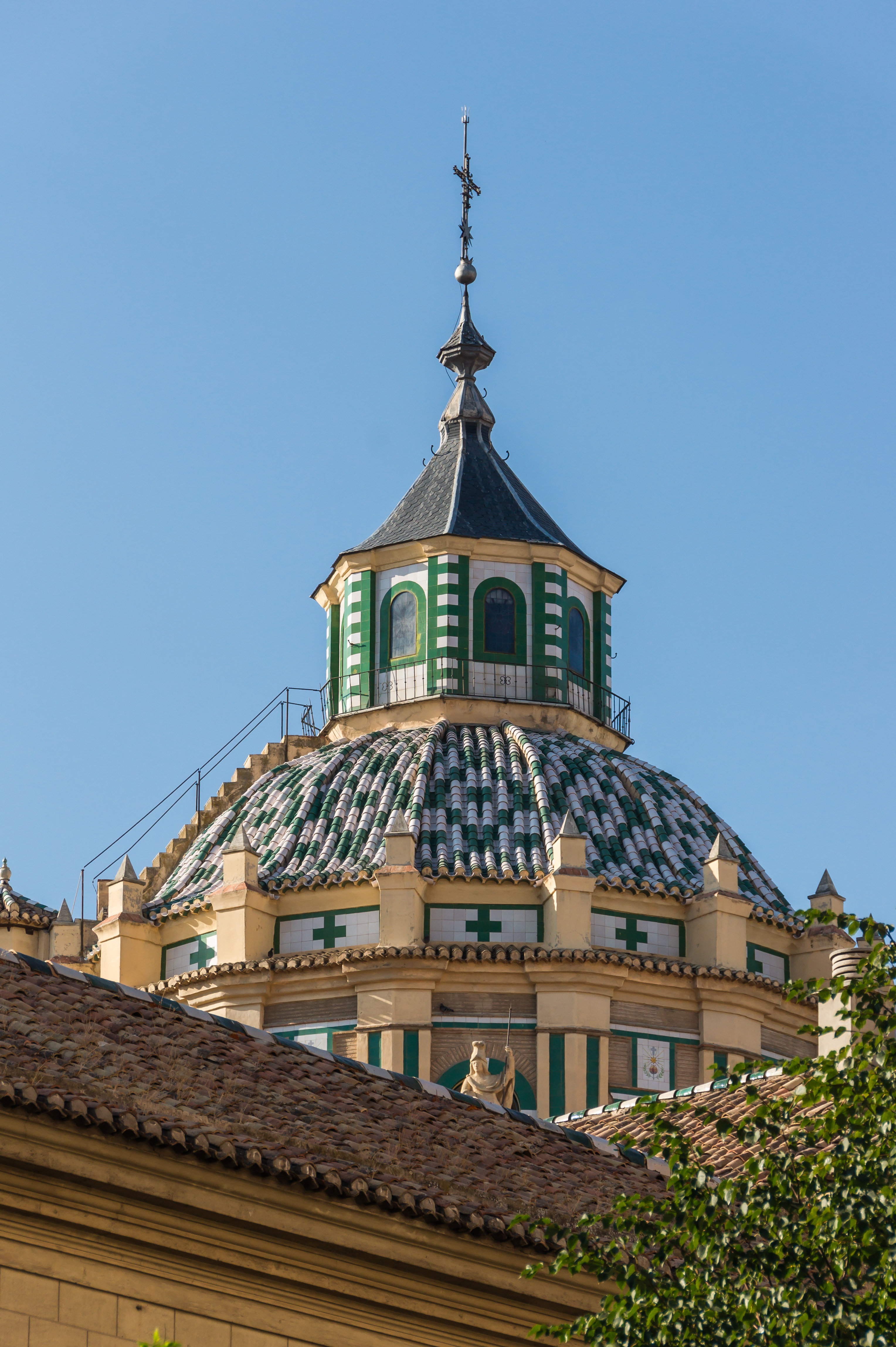 Dome of the basilica-hospital of San Juan de Dios in Granada, Andalusia, Spain